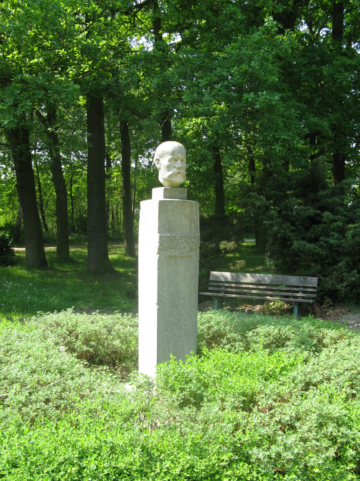 Memorial for music historian Friedrich Chrysander in Lübtheen Mecklenburg-Vorpommern, Germany